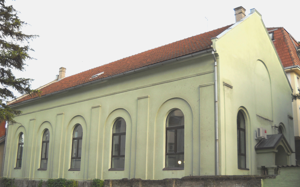 Prayer House of Nazarene Christian Community in Novi Sad, built in 1922-1924. Services are performed in Serbian language.